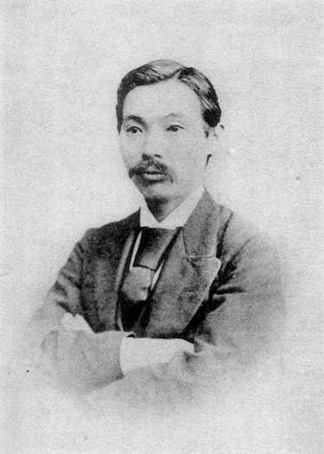 Sensai Nagayo, taken in Berlin, 1872 (35 years old).